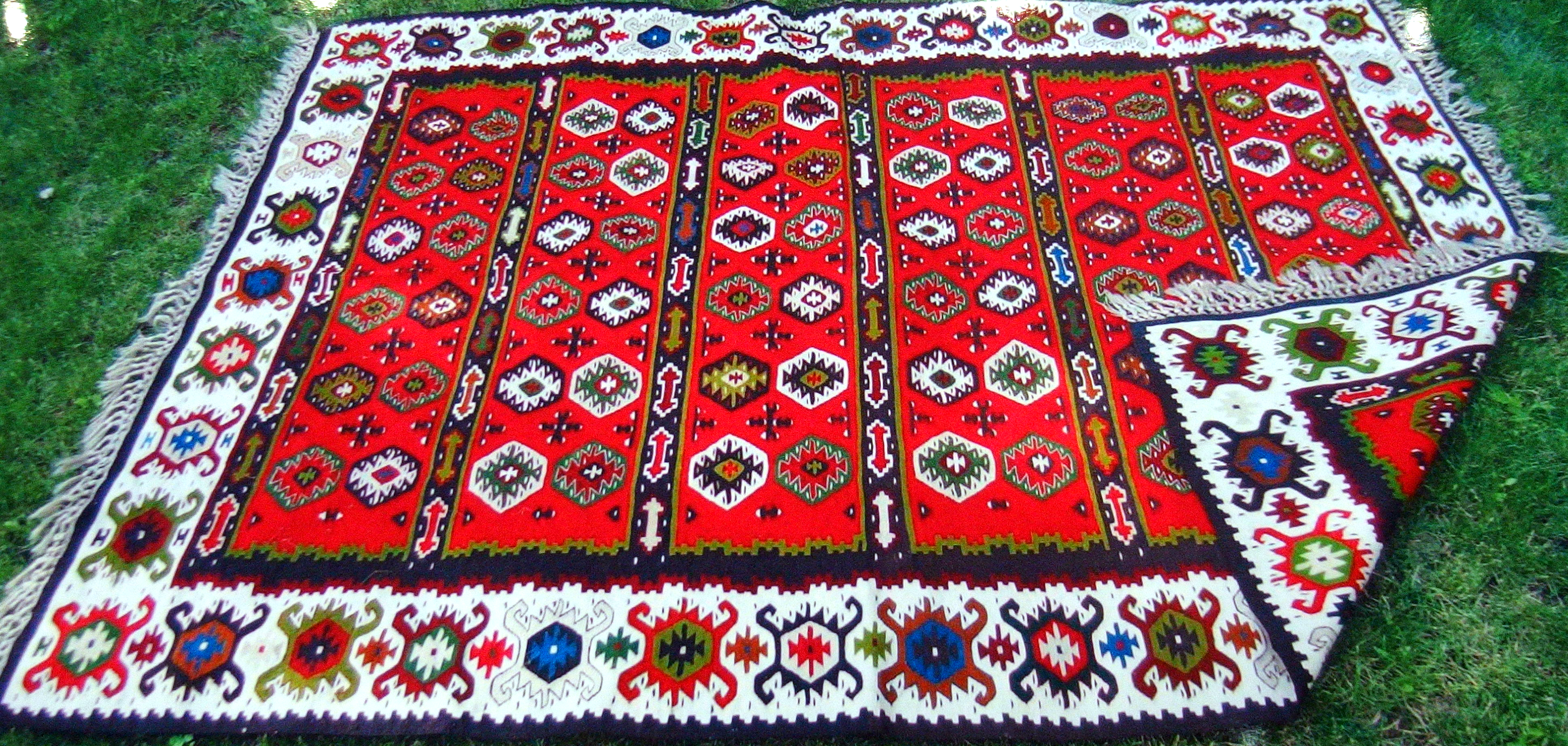 Pirot kilim with the Ornament Bombe u predradama